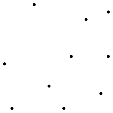 Some points as a basis for a Delaunay triangulation.